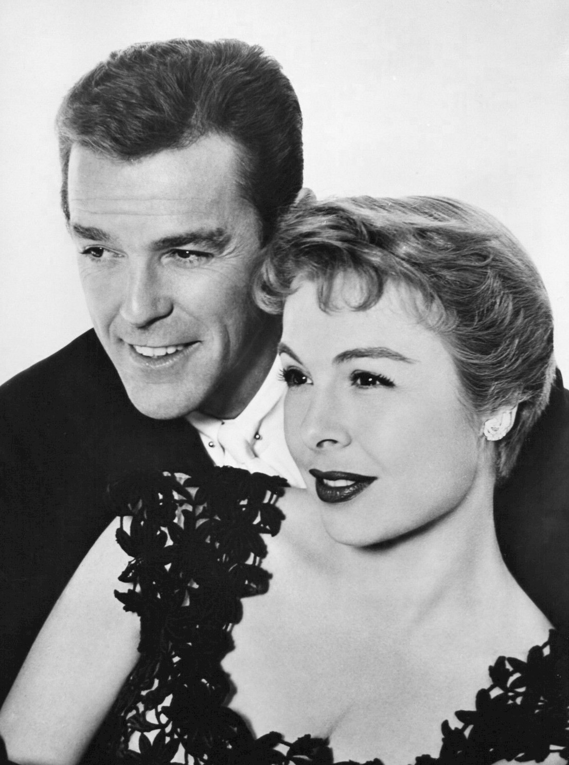 Photo of entertainers Marge and Gower Champion. This is from a short-lived television comedy the couple starred in. There are no copyright marks on the item, which can be seen at the link.